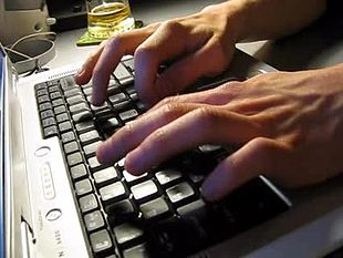 සිංහල: Typing example